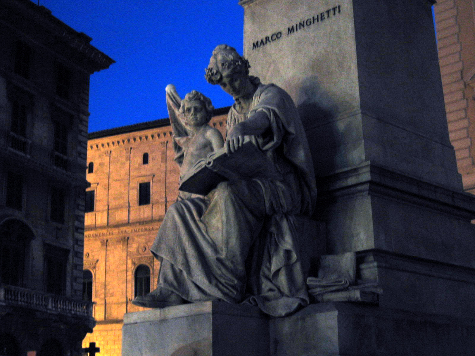 In piazza S. Pantaleo, between the Campo de' Fiori and piazza Navona, a monument by Lio Gangeri and Giacomo Misuraca (1895) commemorates the legislator Marco Minghetti, while the fifteenth-century palazzo della Cancelleria is lit up behind.